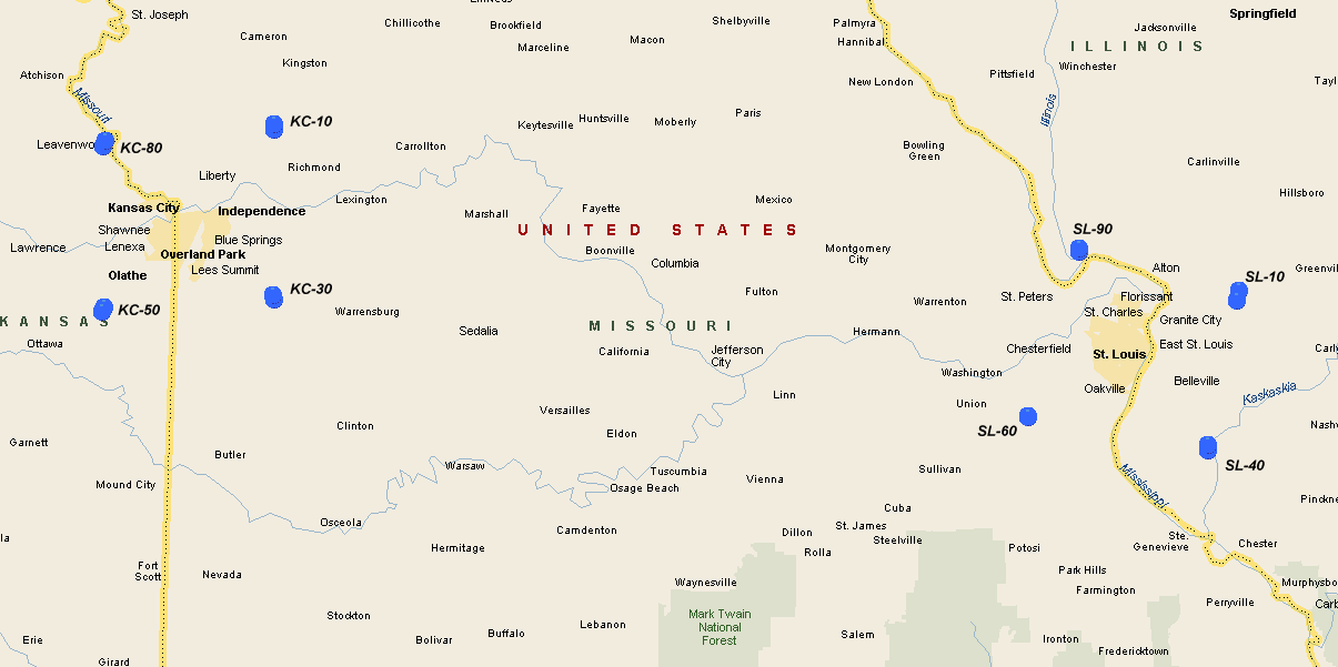 Missouri Nike Missile Sites Nike Missile Sites